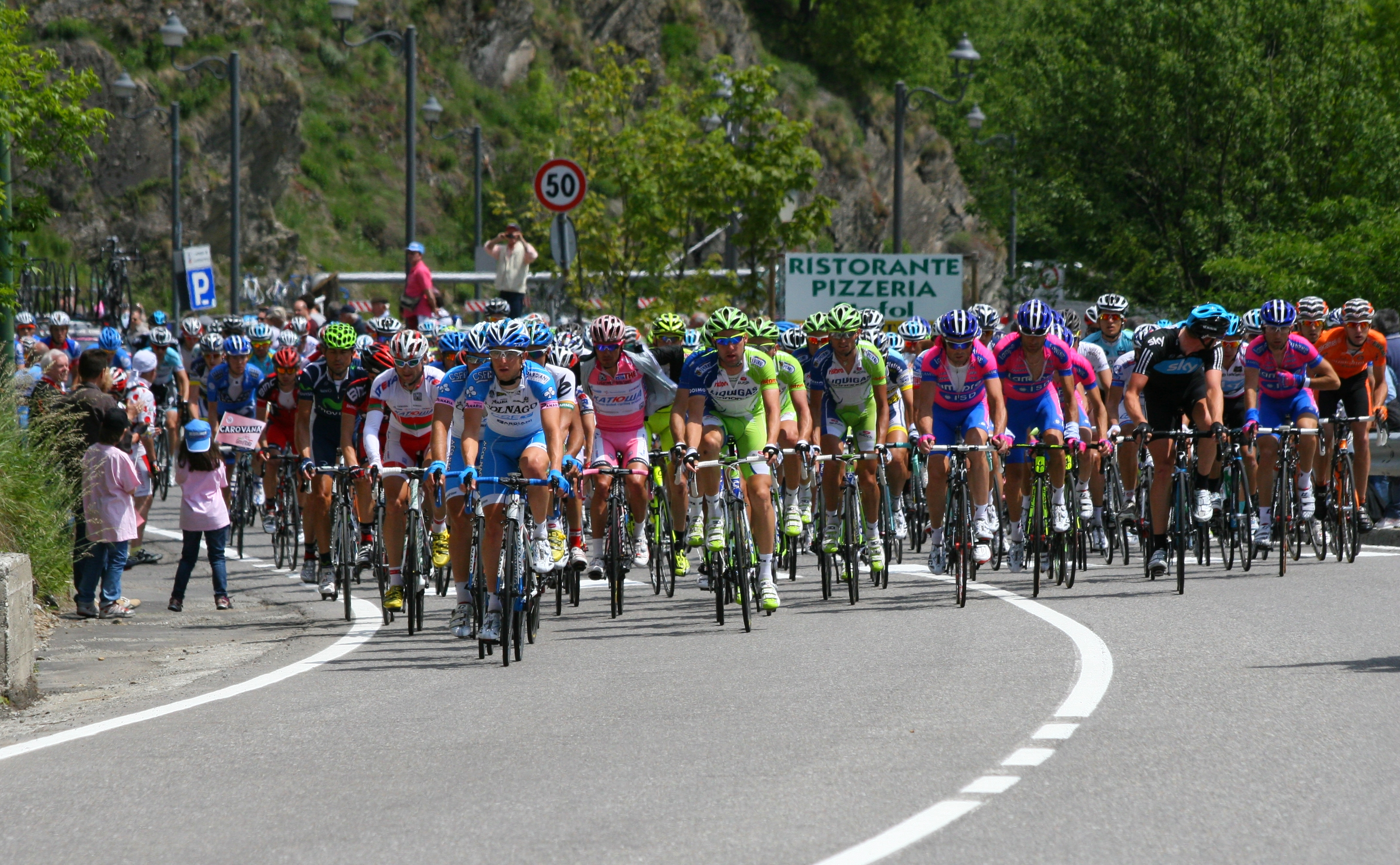 All photos are the property of the photographer and may not be used without permission.... Thanks for the visit, comments, awards, invitations and favorites.